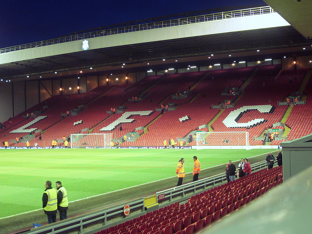 Liverpool - Anfield, The Kop